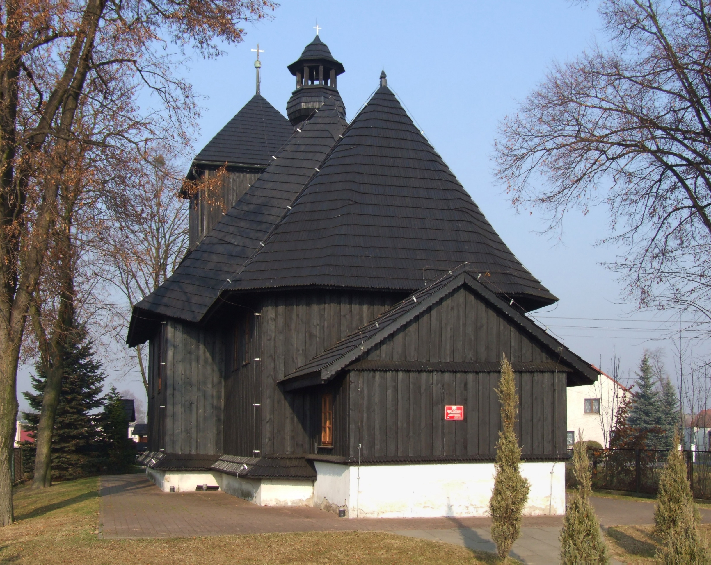 Wooden church in Przewóz/Przewos (1934-45 Fährendorf), Upper Silesia